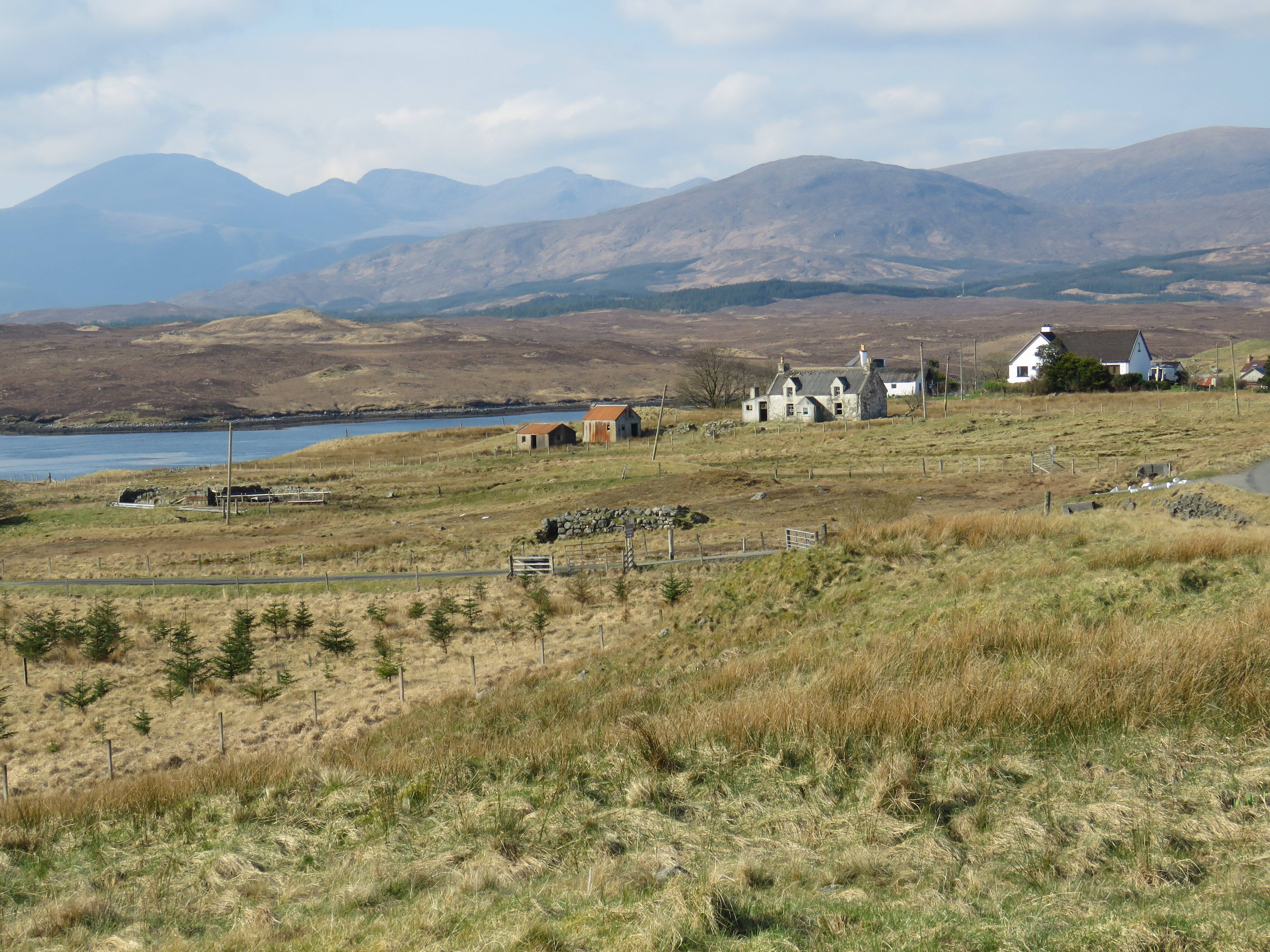 Parish of Lochs, Lewis, Outer Hebrides, looking south